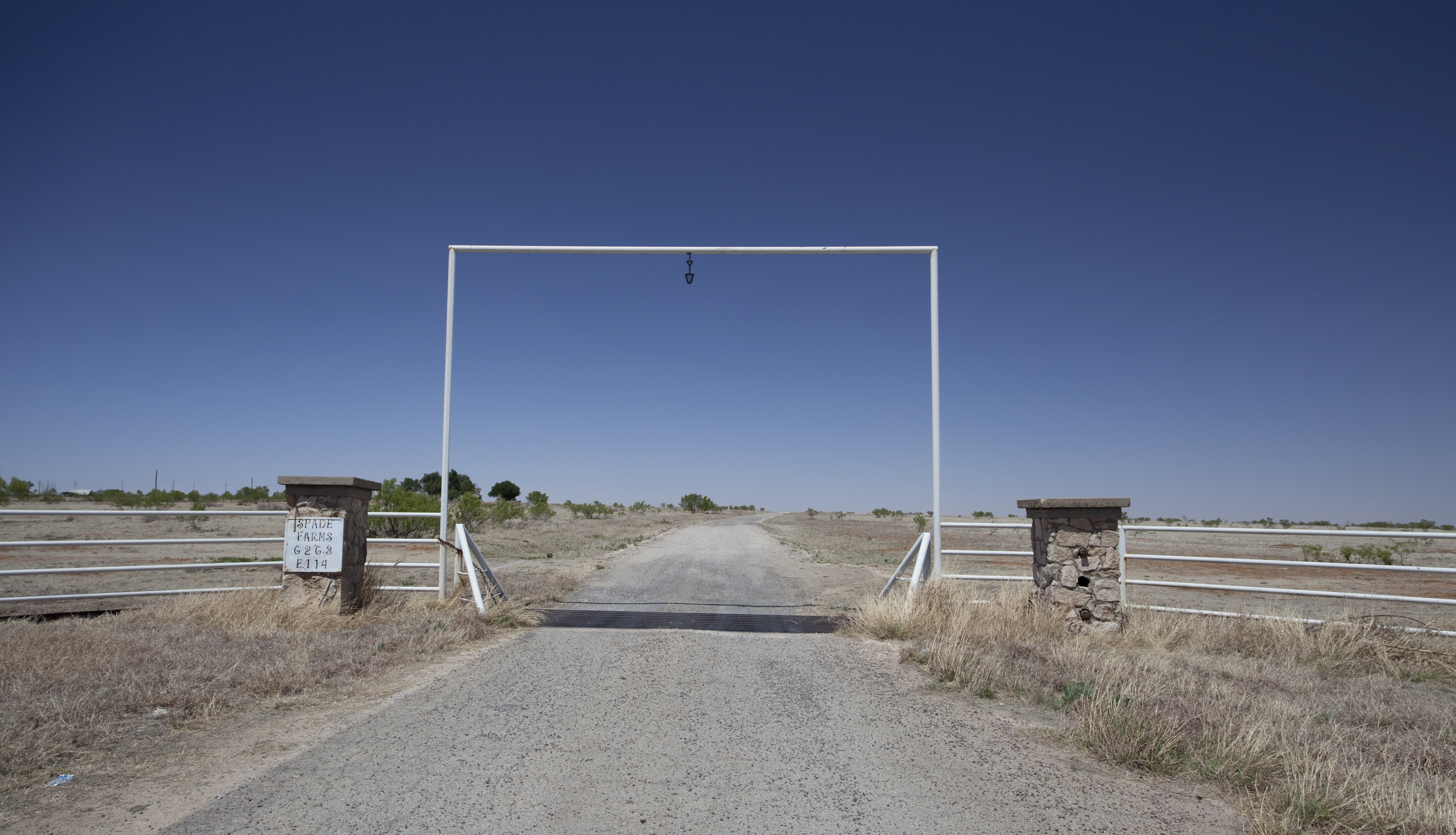 The entrance to the 1902 Spade Ranch headquarters for south pasture operations west of Smyer in Hockley County, Texas.